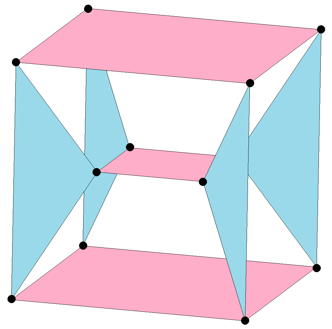 Complex polygon 3{} x 4{ }